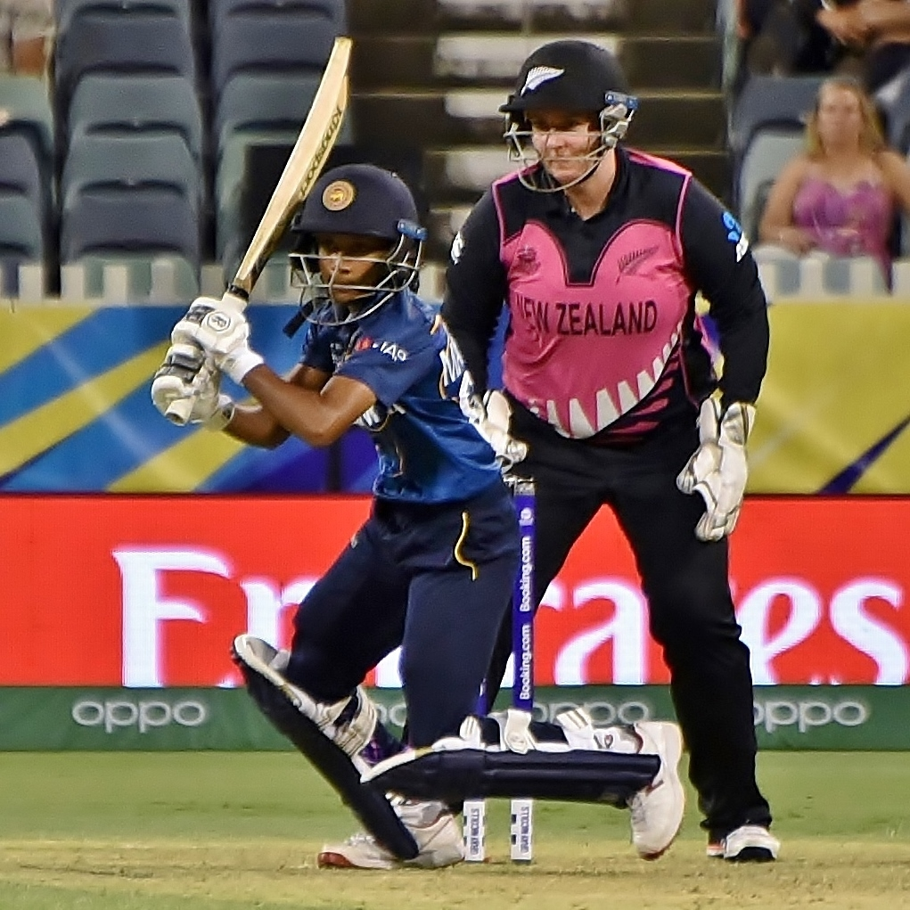 Harshitha Madavi batting for Sri Lanka against New Zealand during their 2020 ICC Women's T20 World Cup match at the WACA Ground in Perth, Australia. The wicket-keeper is Rachel Priest.